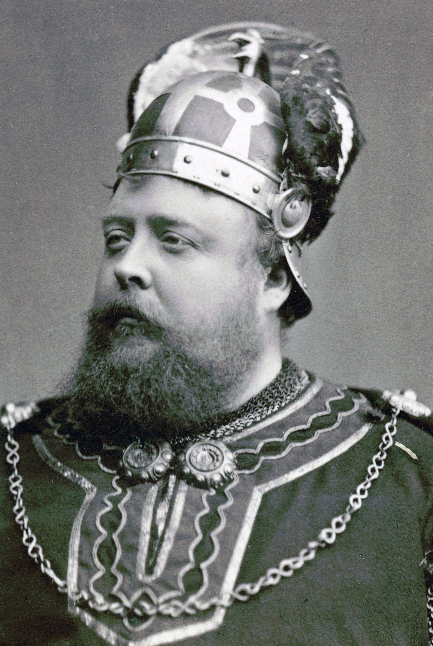 Carl Fredrik Lundqvist (1841-1920), Swedish opera singer; seen here dressed as Gudmund in the opera Harald Viking.